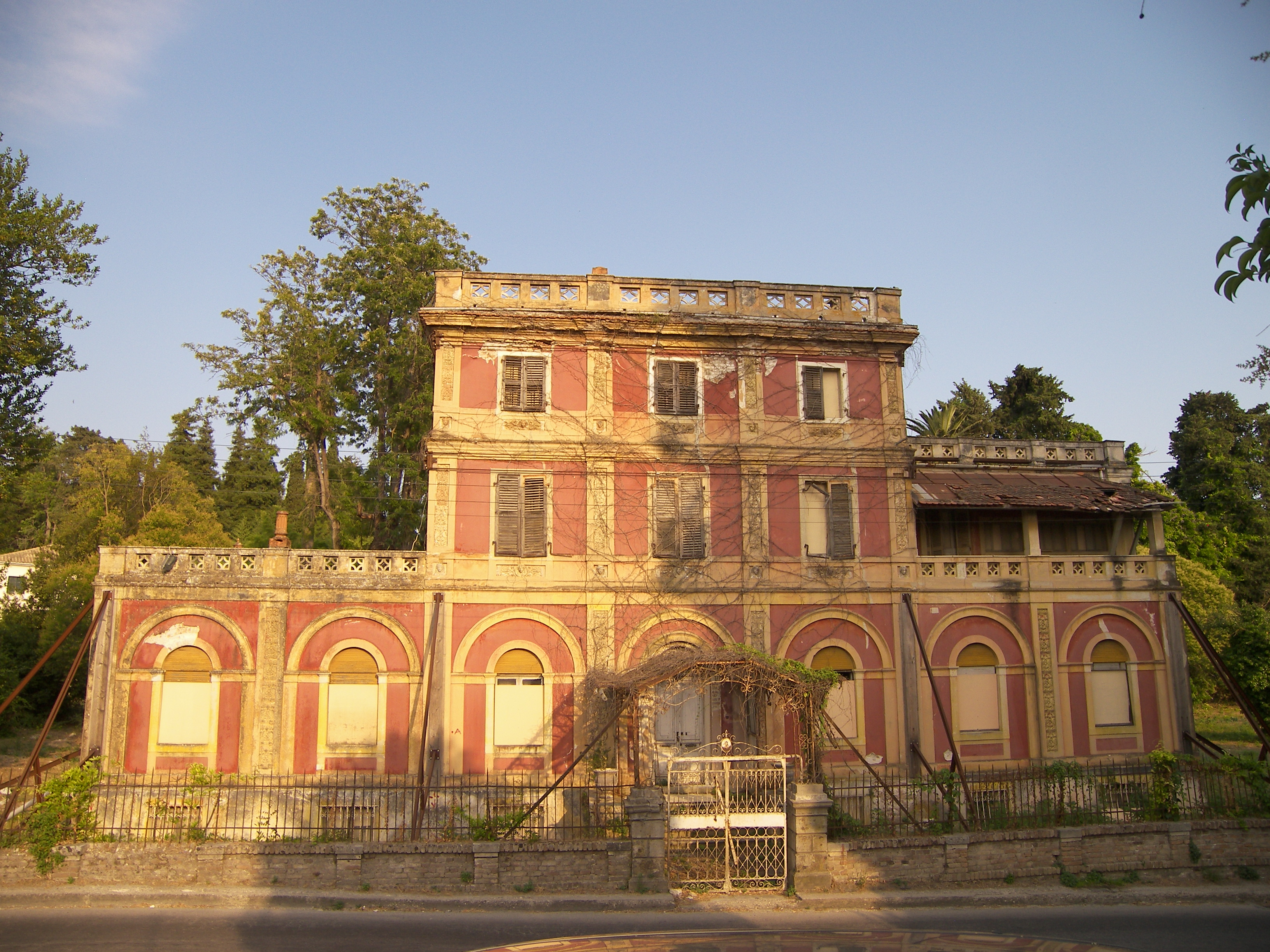 Villa Rossa in Corfu